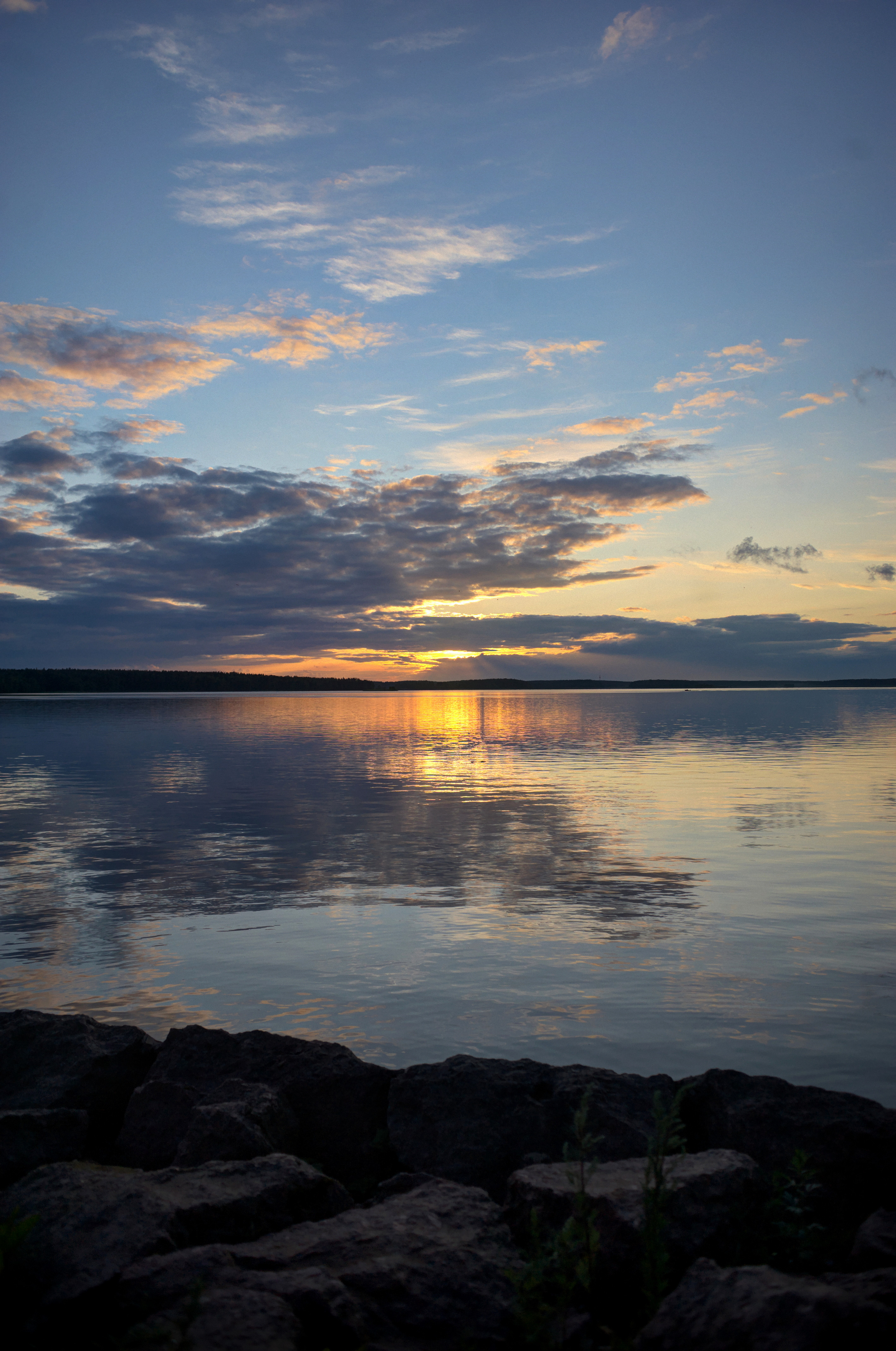 Itämeri Johanneksen kirkonkylän (Vaahtolan) rannalta nähtynä.